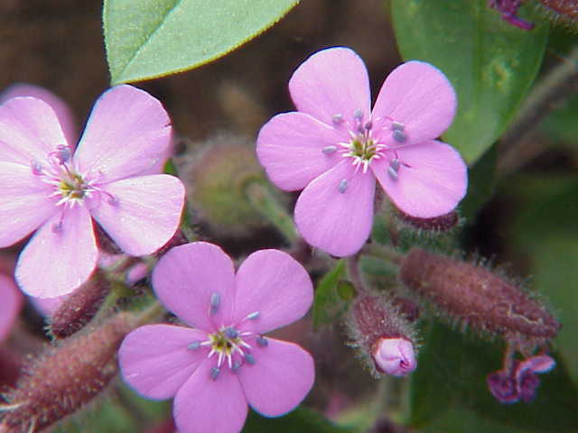 Species: Saponaria ocymoides Family: Caryophyllaceae Image No. 1